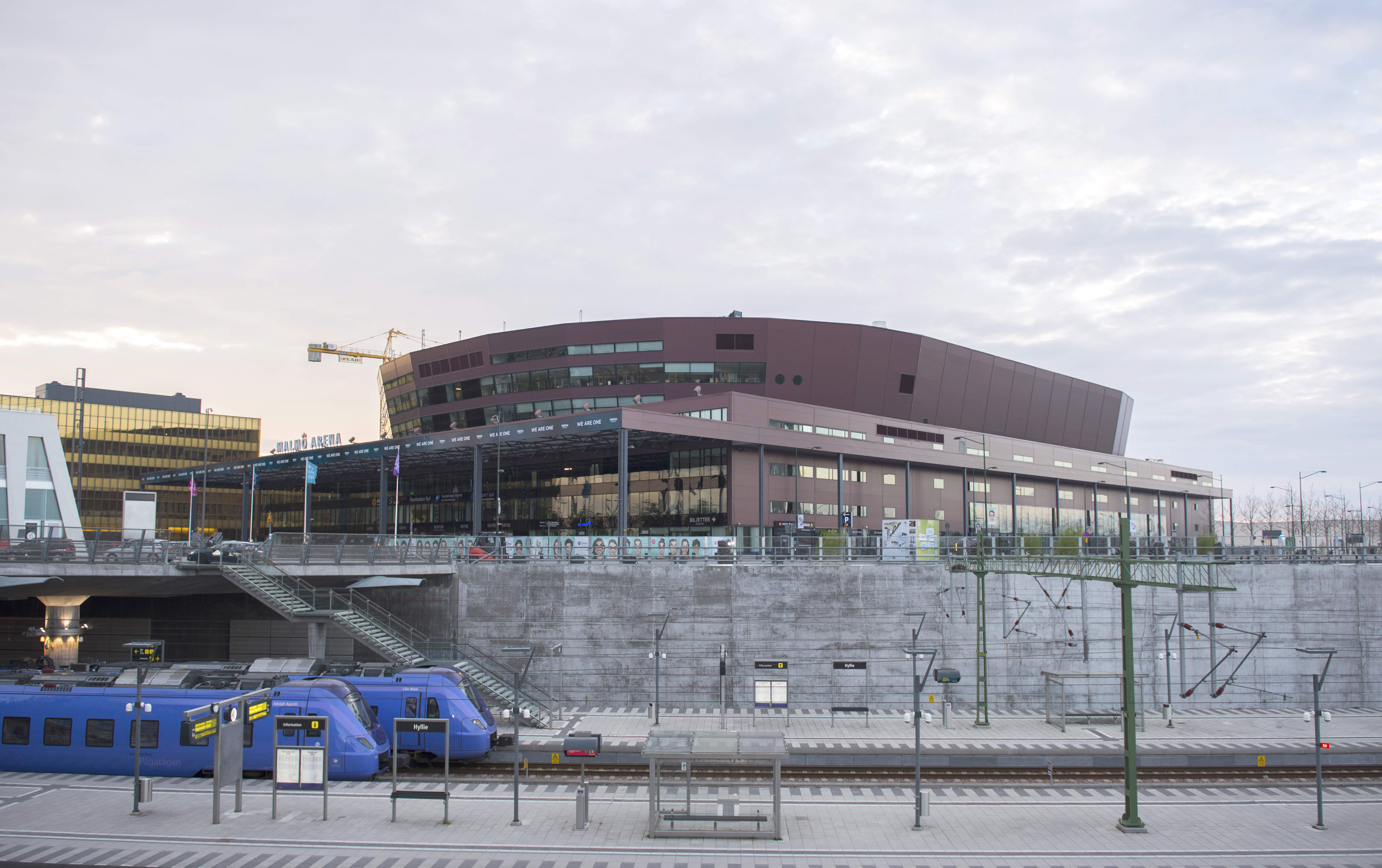 Malmö Arena in Malmö, Sweden. The photo was taken during the the Eurovision Song Contest 2013 week.